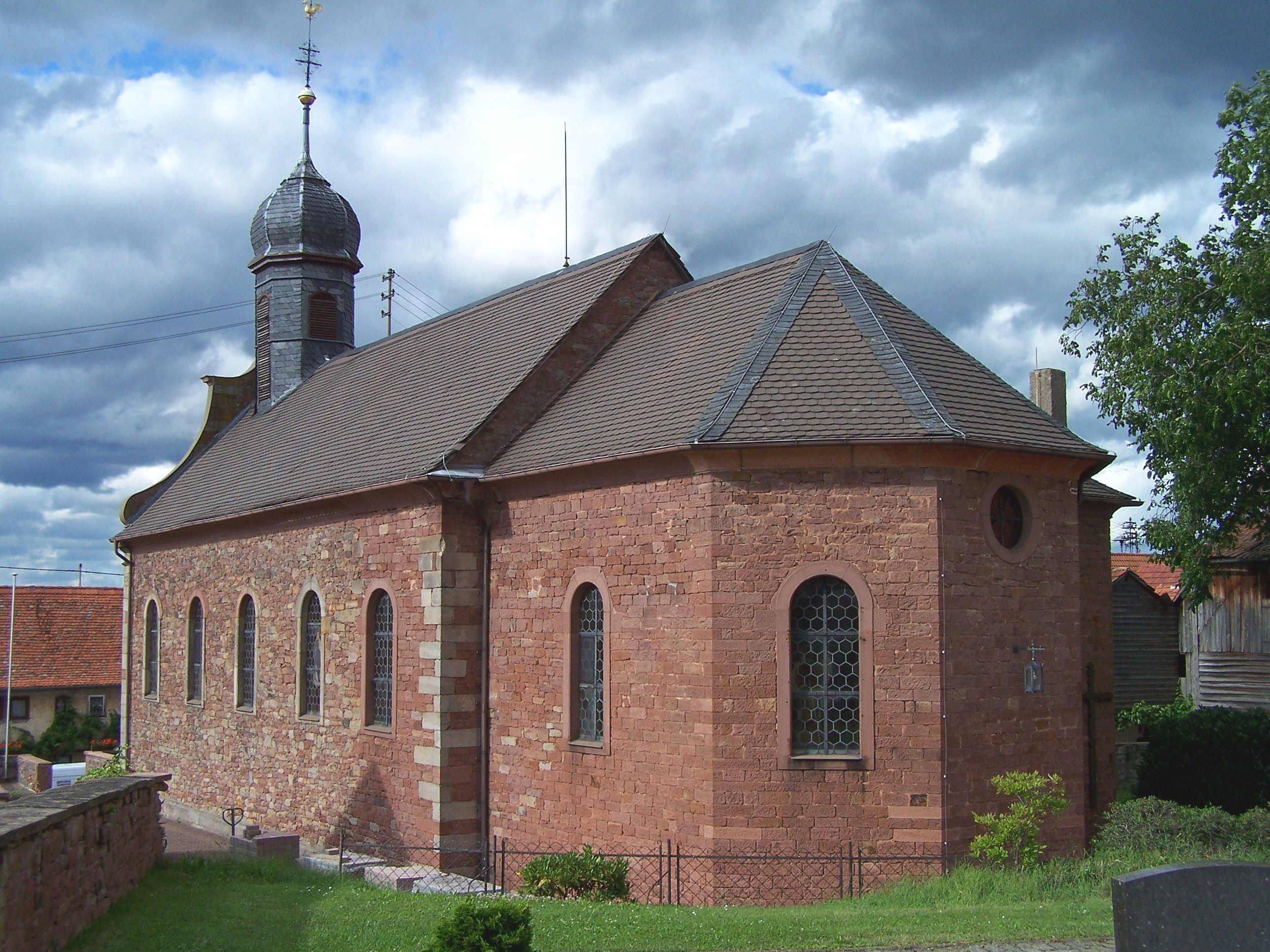 Catholic church St. Johannes der Täufer und St. Johannes der Evangelist in Mönchberg, district Schmachtenberg, July 2012